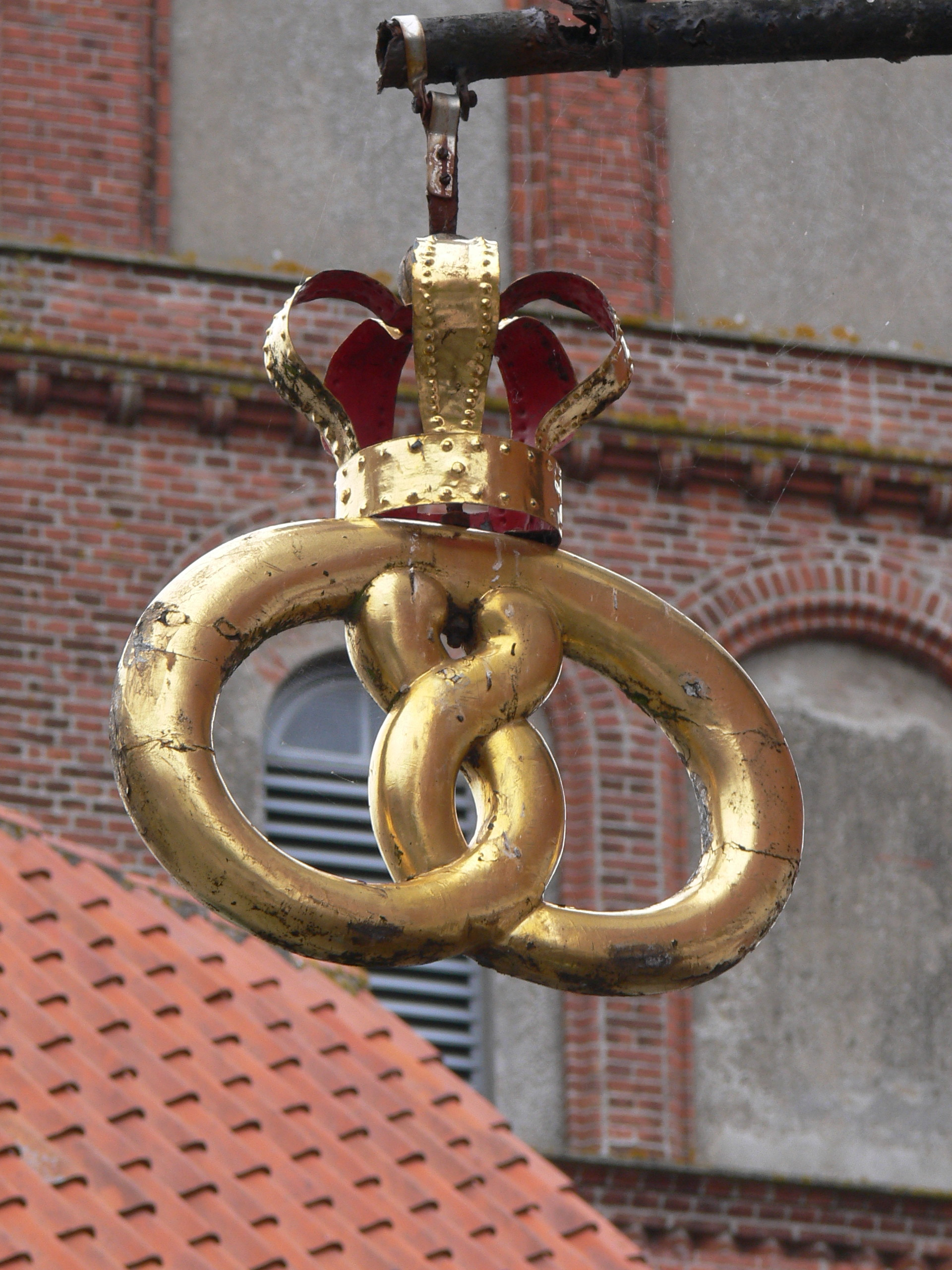 Ribe ( Denmark ). Bakery sign.